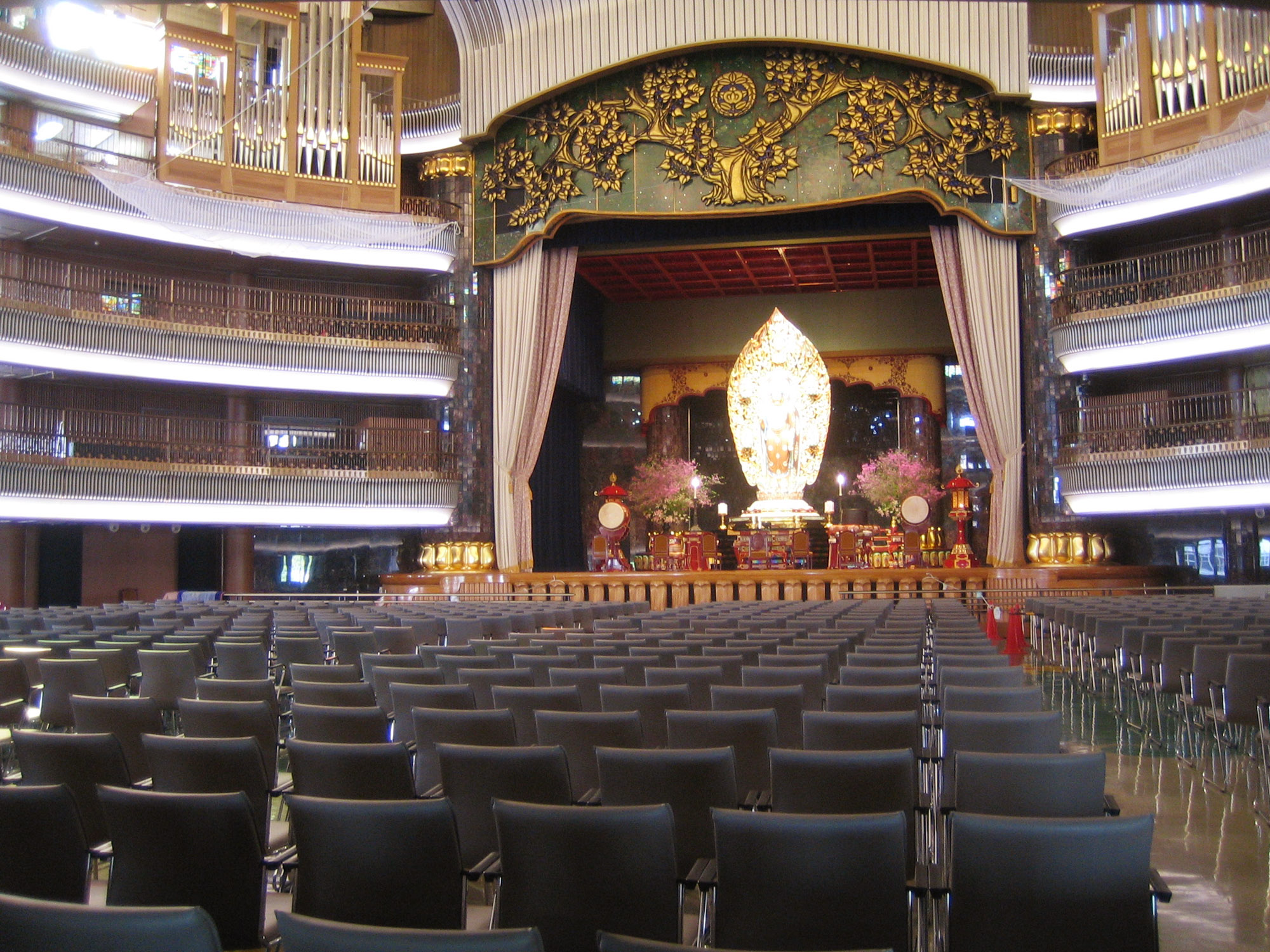 A The principal image of the Rissho Kosei-kai (立正佼成会), in the Great Sacred Hall (大聖堂 Daiseidō)